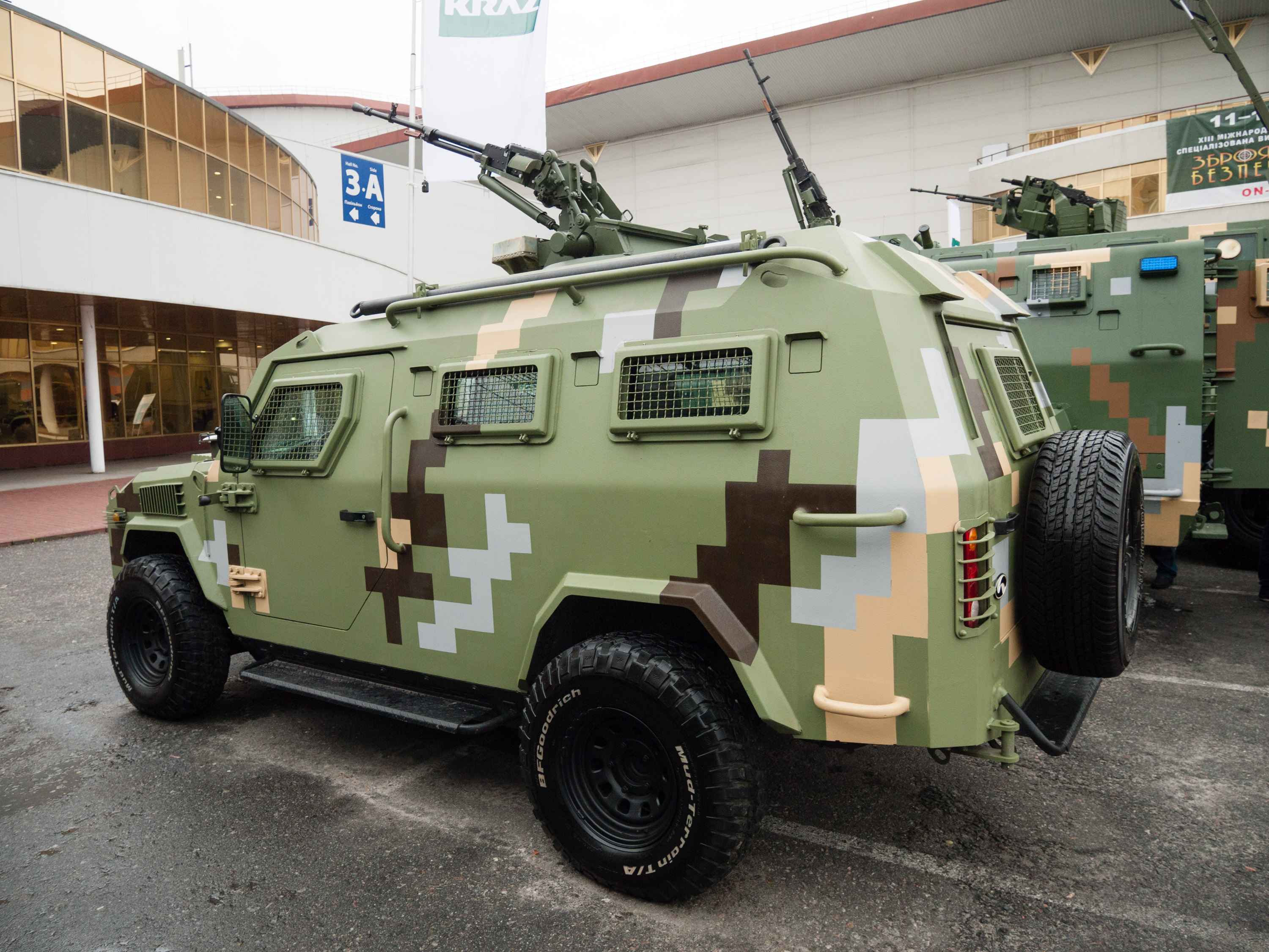 KrAZ Cougar (2016) rear view